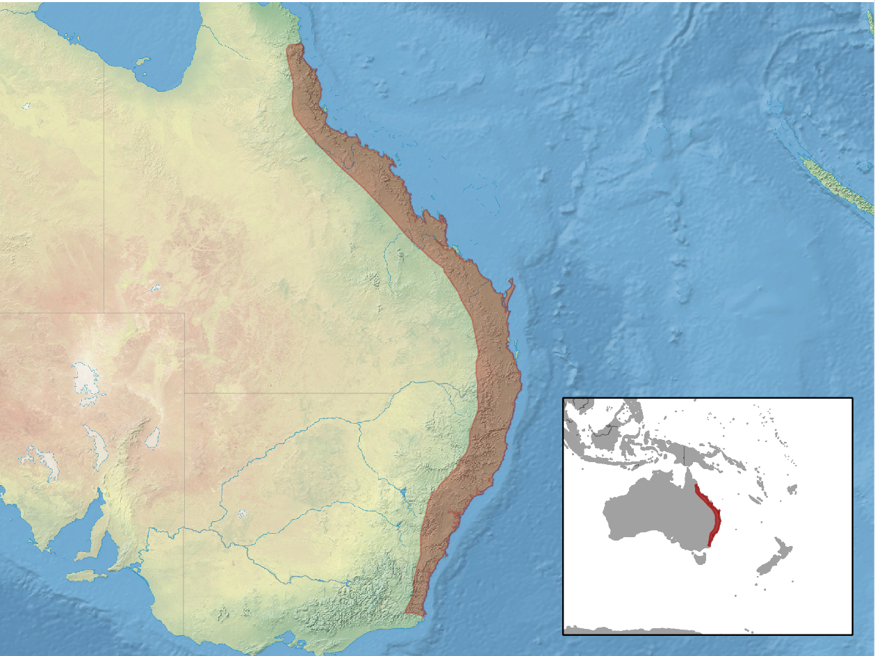 geographic distribution of Scoteanax rueppellii